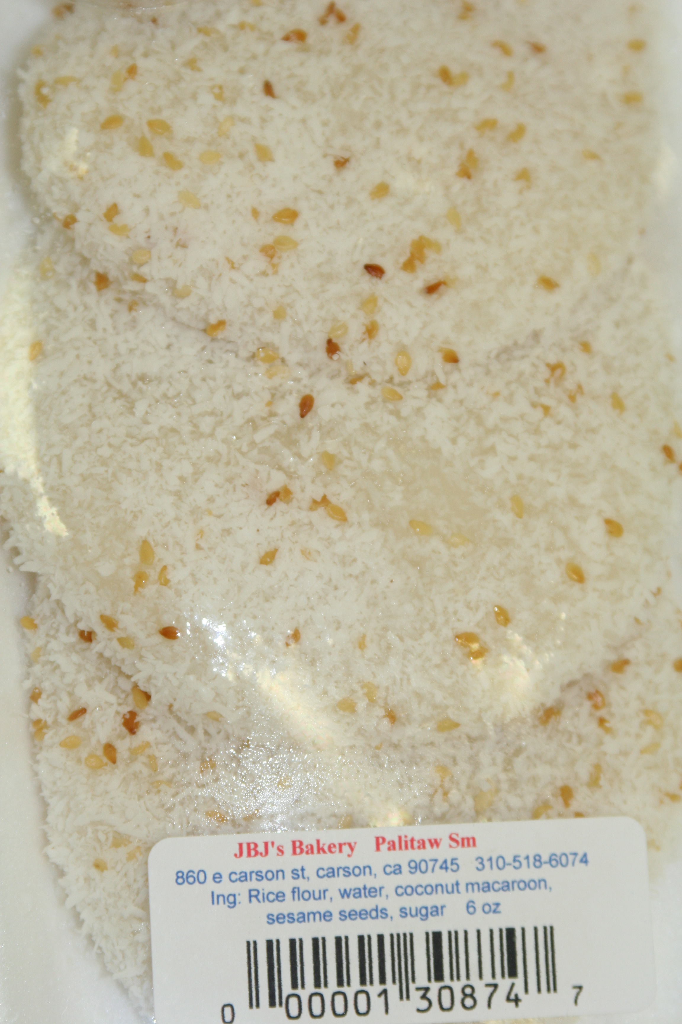 Palitaw from Los Angeles, by ChildofMidnight, attribution required